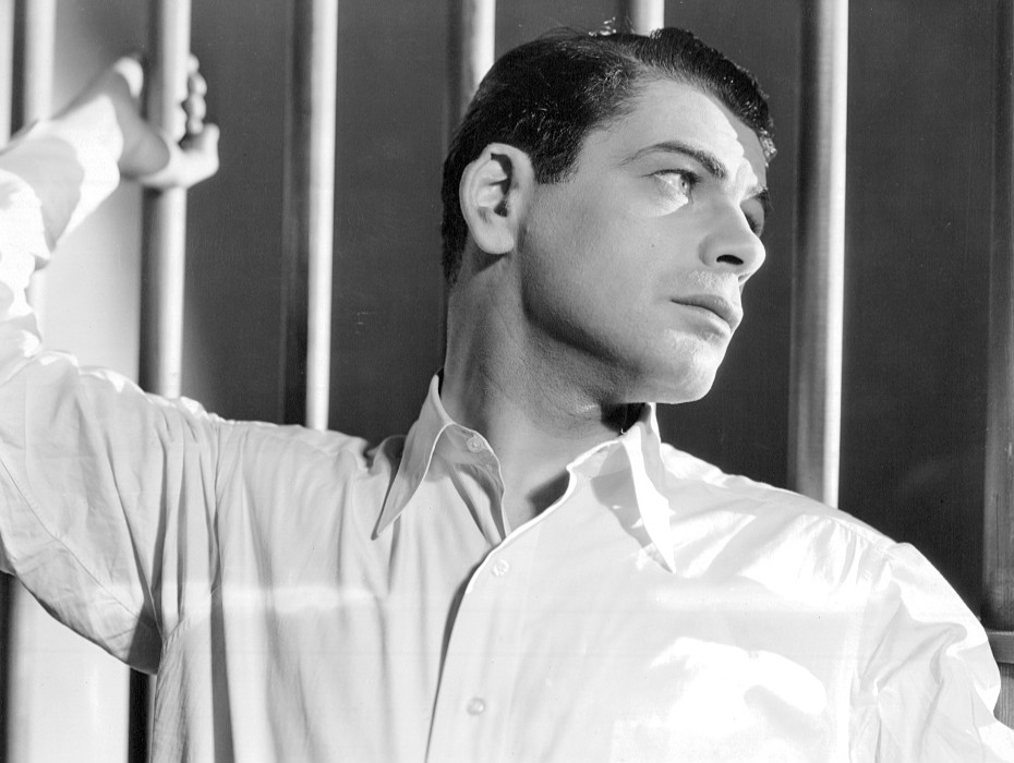 Scene from the film I Am A Fugitive From a Chain Gang (1932). Pictured is Paui Muni.